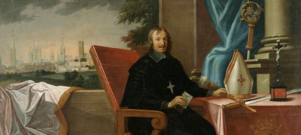 Christoph Bernhard von Galen was prince-bishop of Münster from 1650 to 1678.